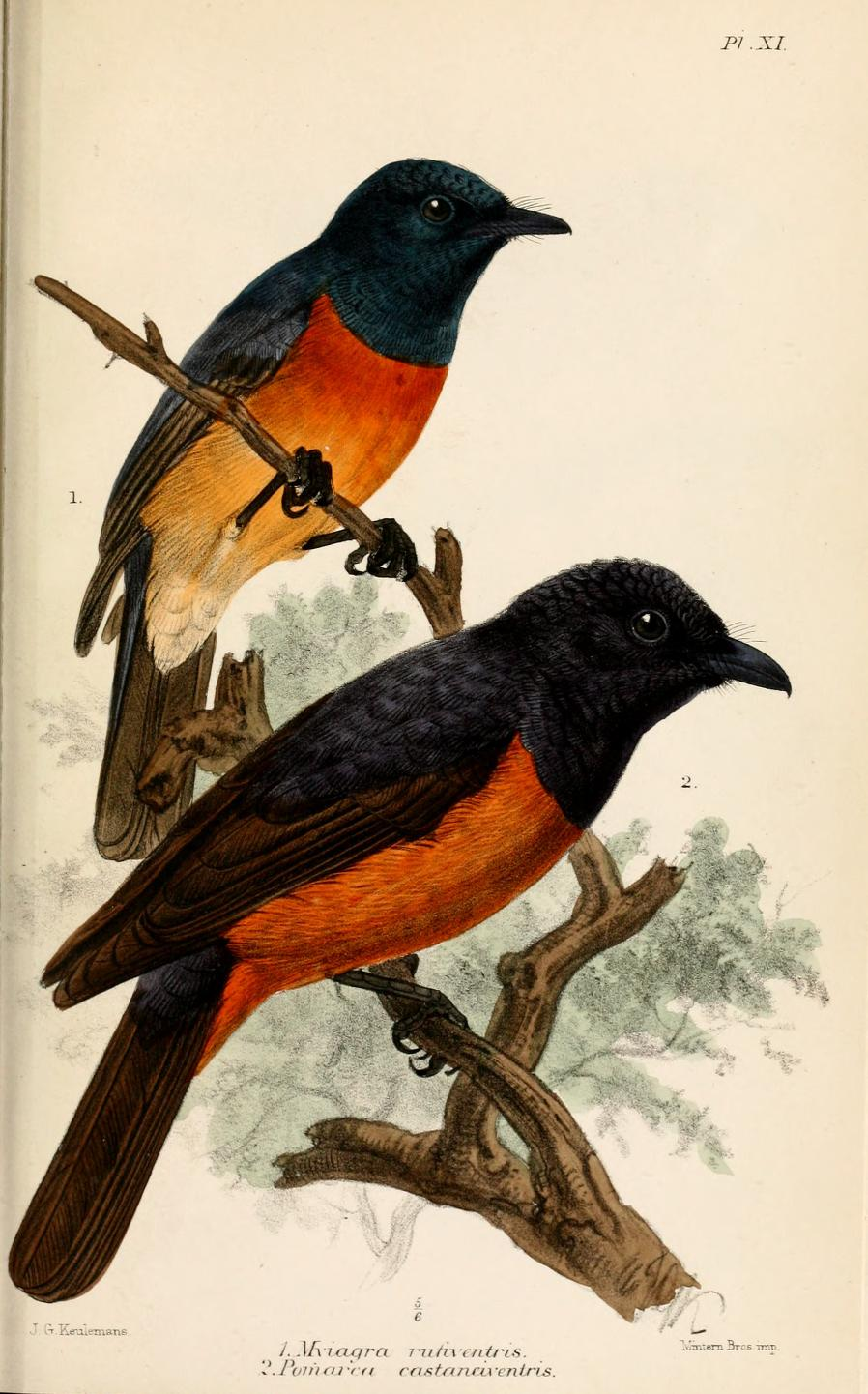 Myiagra rufiventris = Myiagra vanikorensis rufiventris, Vanikoro Flycatcher ssp. (above); and Monarcha castaneiventris, Chestnut-bellied Monarch (below)